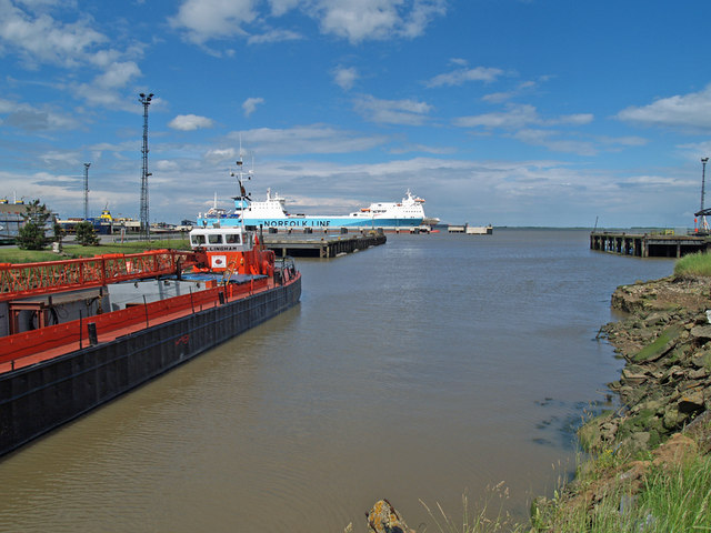 North Killingholme Haven: The vessel on the left of the picture is the dredger "Collingham".